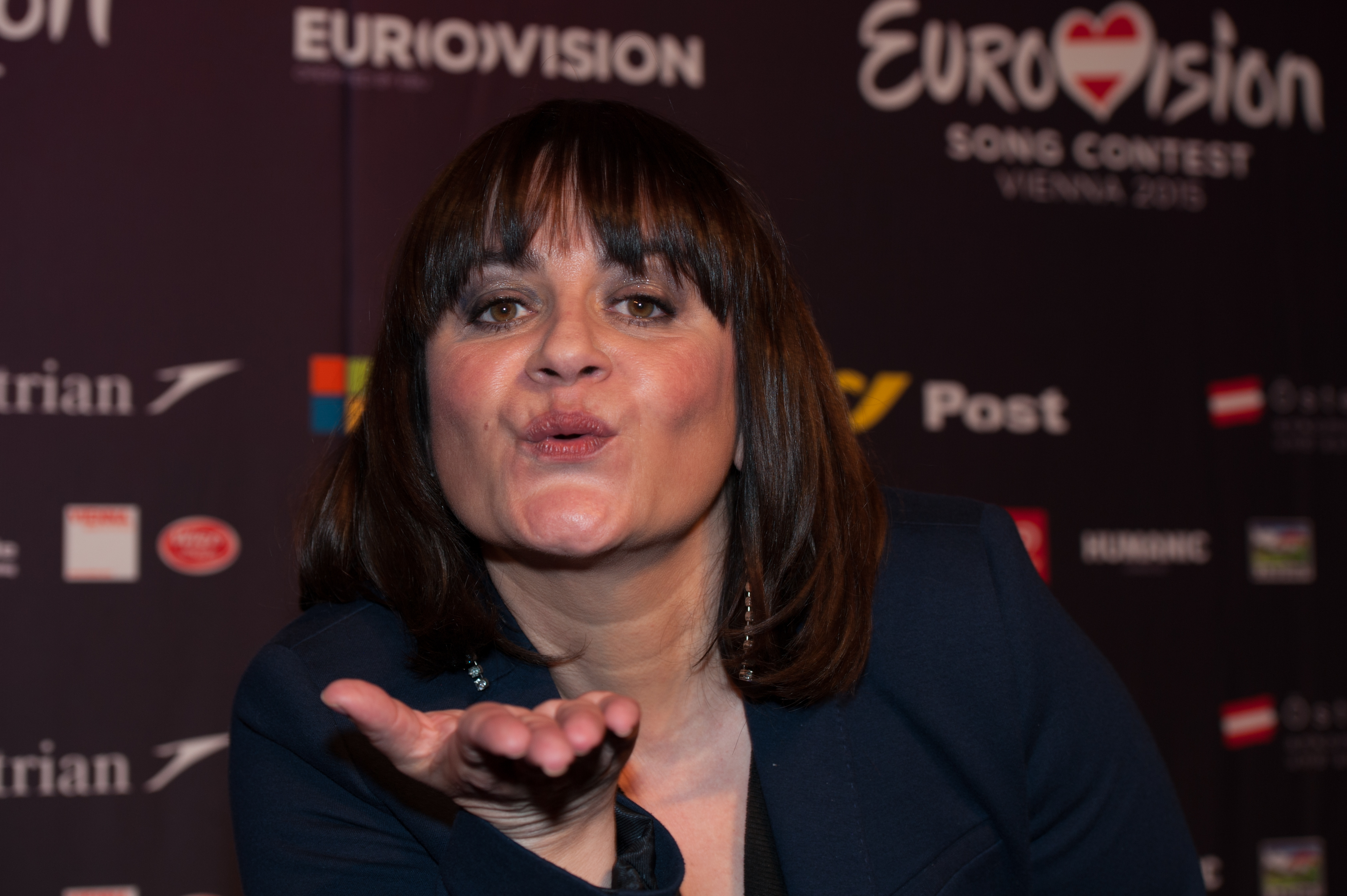 Eurovision Song Contest Vienna 2015: Lisa Angell